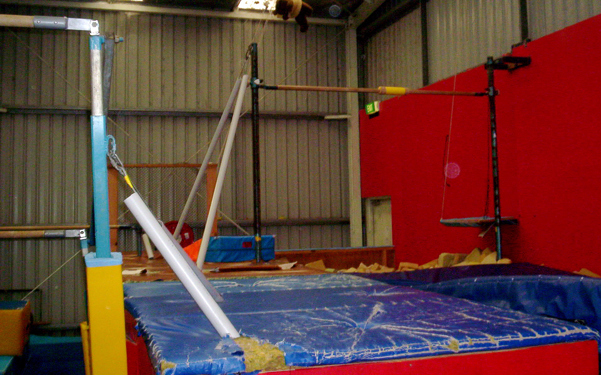 Interior of gym showing horizontal bar